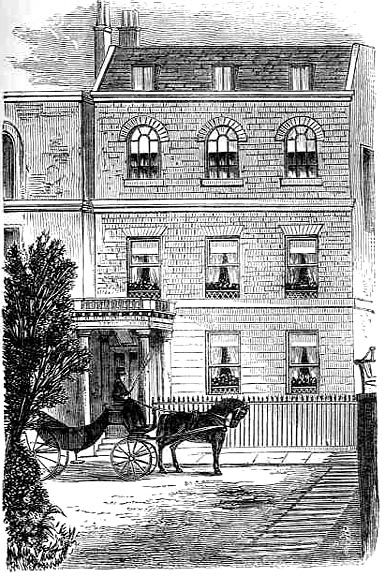 Print of Tavistock House